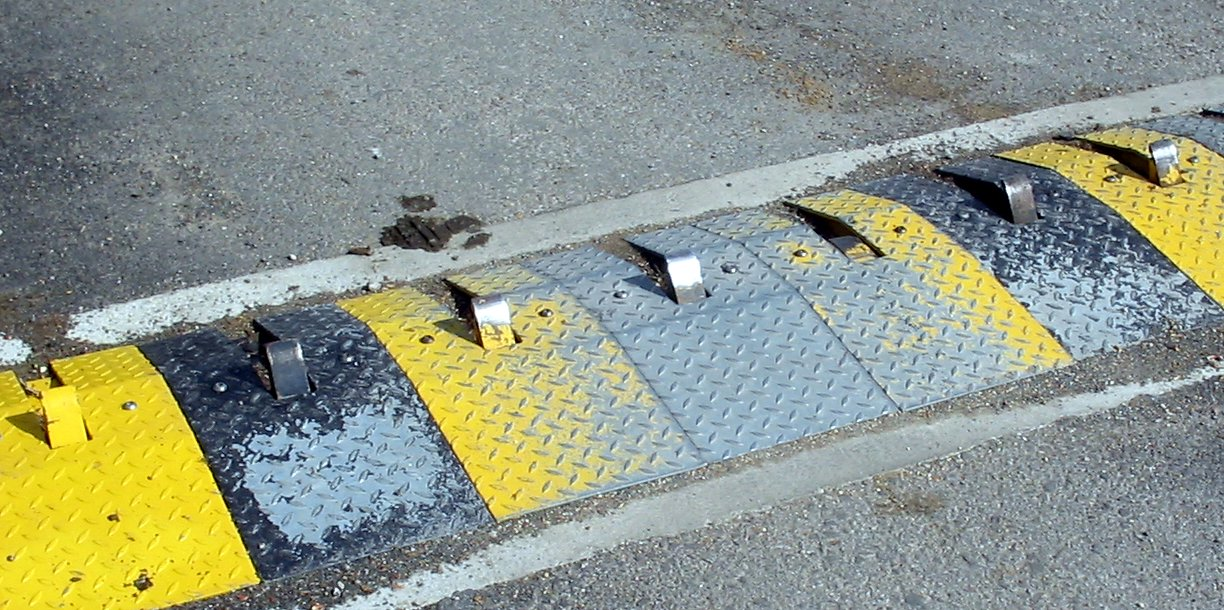 A severe tire damage device at the parking area at Bolton Abbey. The warning sign called them "alligator teeth". The teeth are on springs, and fold down when a car drives over them in the right direction. One of the teeth is stuck down. David Benbennick took this photo on Tuesday, May 10, 2005 at 4:12 PM (15:12 UTC).